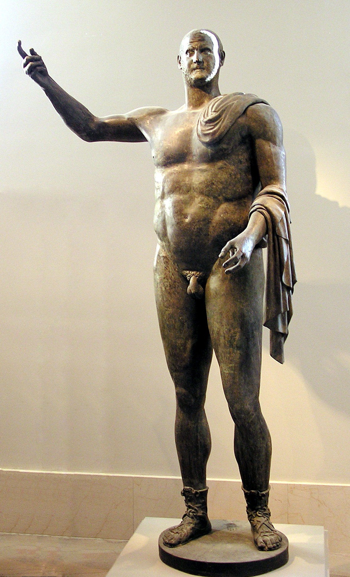 Trebonianus Gallus from the time of his reign as Roman Emperor (251-253 AD), the only nearly-complete large-scale Roman bronze to survive from the 3rd century. The statue is 2.413 meters in height. Surfaced in the early 19th century, said to have been found at Basilica of St. John Lateran in Rome. There is a contrast between the style of the body, which recalls the Alexander the Great of Lysippos, and the more realistic head. The original is thought to have held a parazonium in the left arm, and a spear in the right hand. At least ¾ of the work is original. Reconstructed parts include the base, the right foot, the mantle (based on evidence), the left upper arm, part of the upper surface around the right shoulder and bicep, the groin, and parts of the right torso. It appears that the left foot may originally be from another ancient statue. Photographed at the Metropolitan Museum of Art in New York City. Contextual information derived from museum placard and their website.